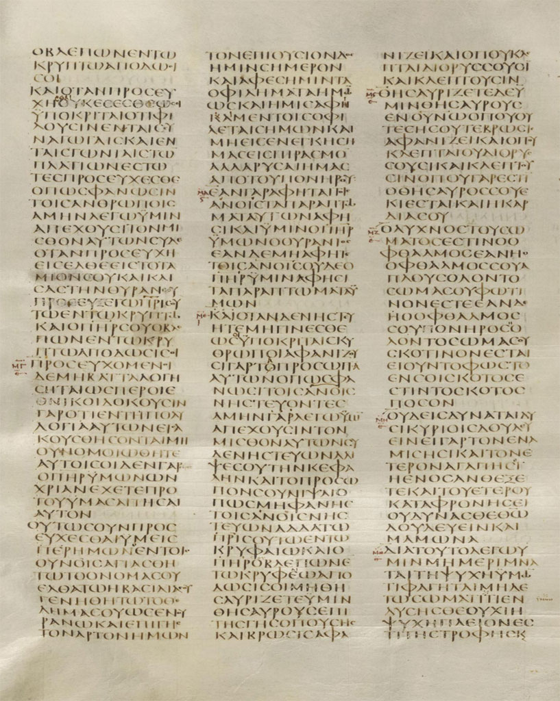 The Lord's prayer in the Codex Sinaiticus. The first few letters are part of Matthew 6:4; the first new paragraph denotes Matthew 6:5. The last full sentence is Matthew 6:24; the last incomplete sentence on this page is Matthew 6:25.